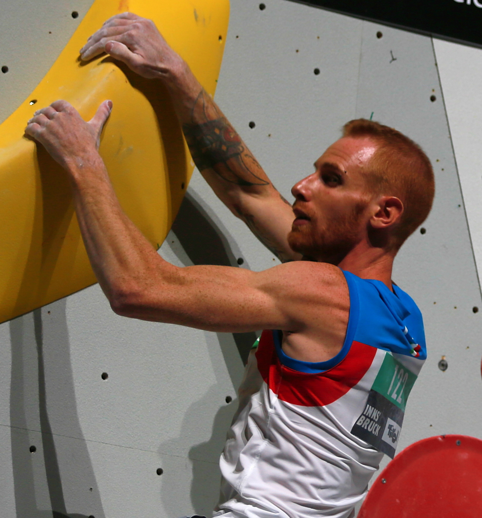 Climbing World Championships 2018 Lead Semi Moroni